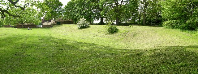 Derventio. Evidence of the remains of the Roman fort on the Derwent River at Malton (there's another Derventio at NY1031 near Papcastle - Gary)